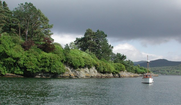 Caladh Harbour, Kyles of Bute. Taken in the anchorage known as Caladh Harbour behind the shelter of Eilean Dubh at the junction of the East and West Kyles of Bute. The Island of Bute can be seen in the background.